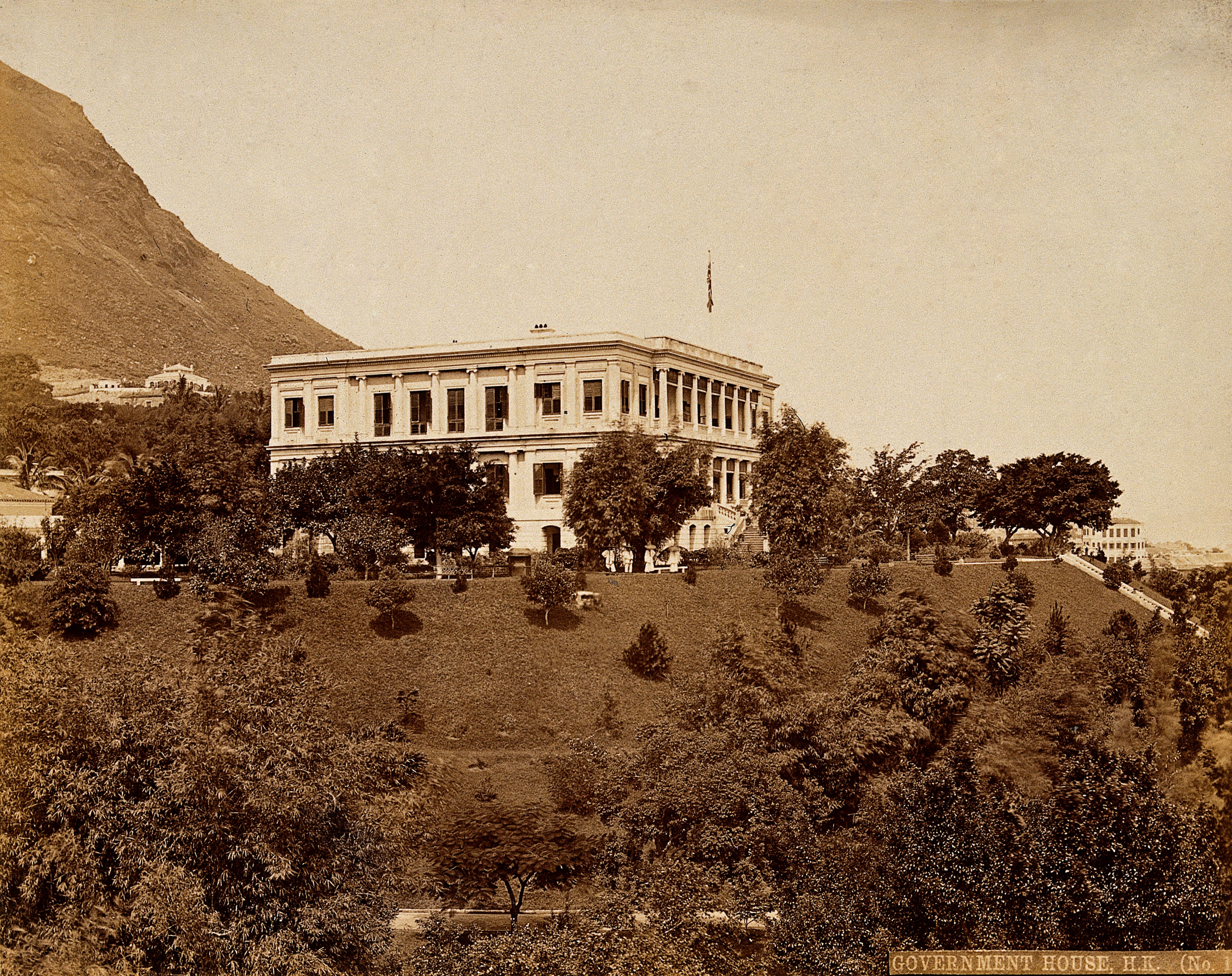 Hong Kong: the Government House and grounds. Photograph. Iconographic Collections